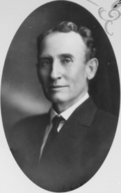 William Harding Mayes, Lieutenant Governor of the U.S. state of Texas in 1913-1914, from the Texas Legislative Reference Library: Woodshed (talk) 06:48, 8 July 2012 (UTC)